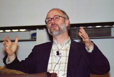 Michael Behe, professor of biochemistry at Lehigh University in Pennsylvania, Intelligent Design proponent. Lecture at DPC, University of Maine.